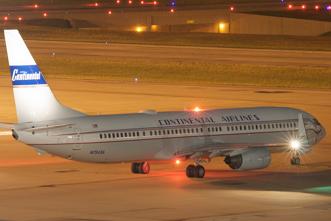 To commemorate Continental's 75th Anniversary, Boeing 737-900ER aircraft N75436 was painted with Continental's mid-50s "Blue Skyways" livery. Shown departing Houston George Bush Intercontinental Airport as CO1666 to Caracas, Venezuela.